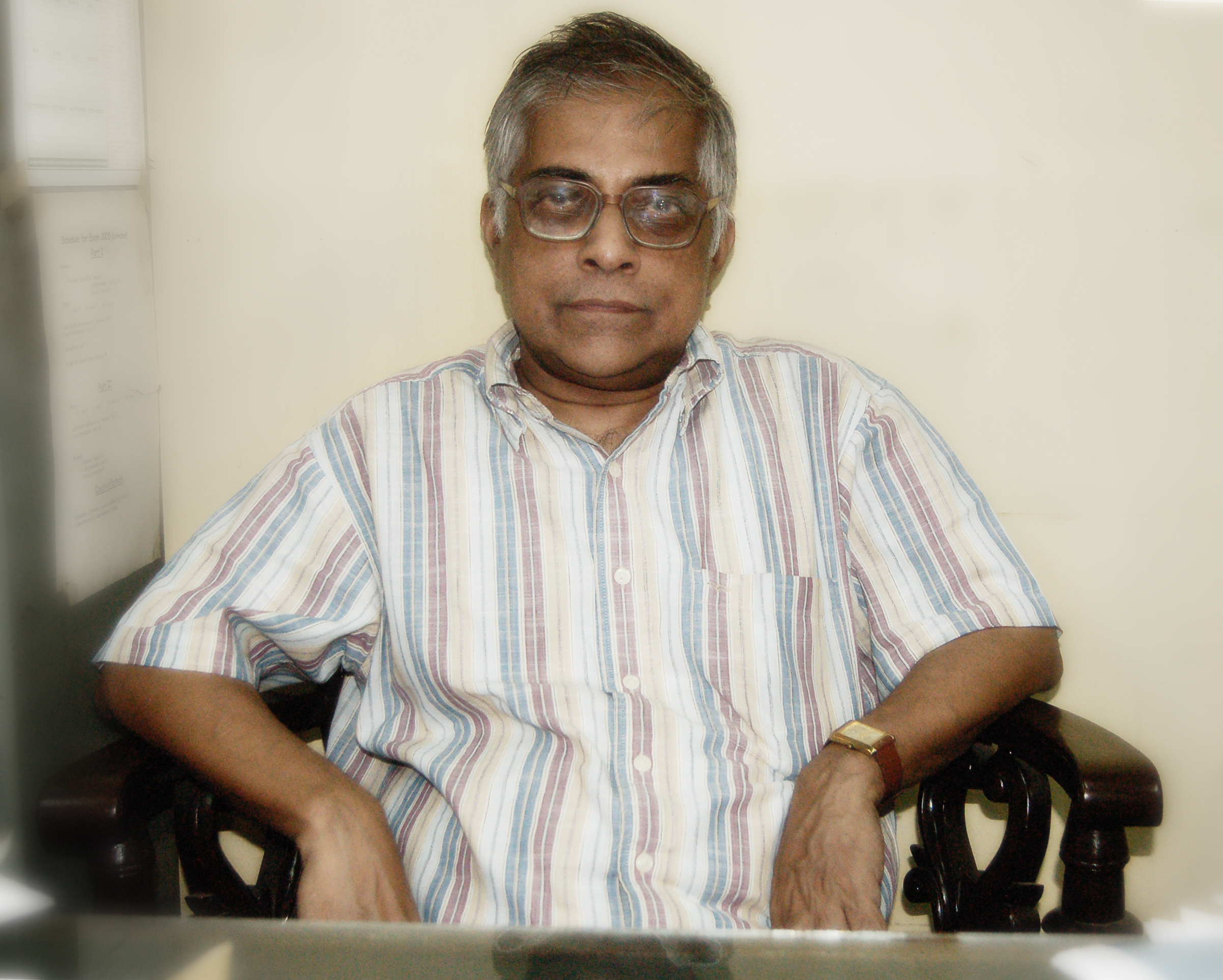 A portrait of physicist Prof. Amitava Raychaudhuri at his office.